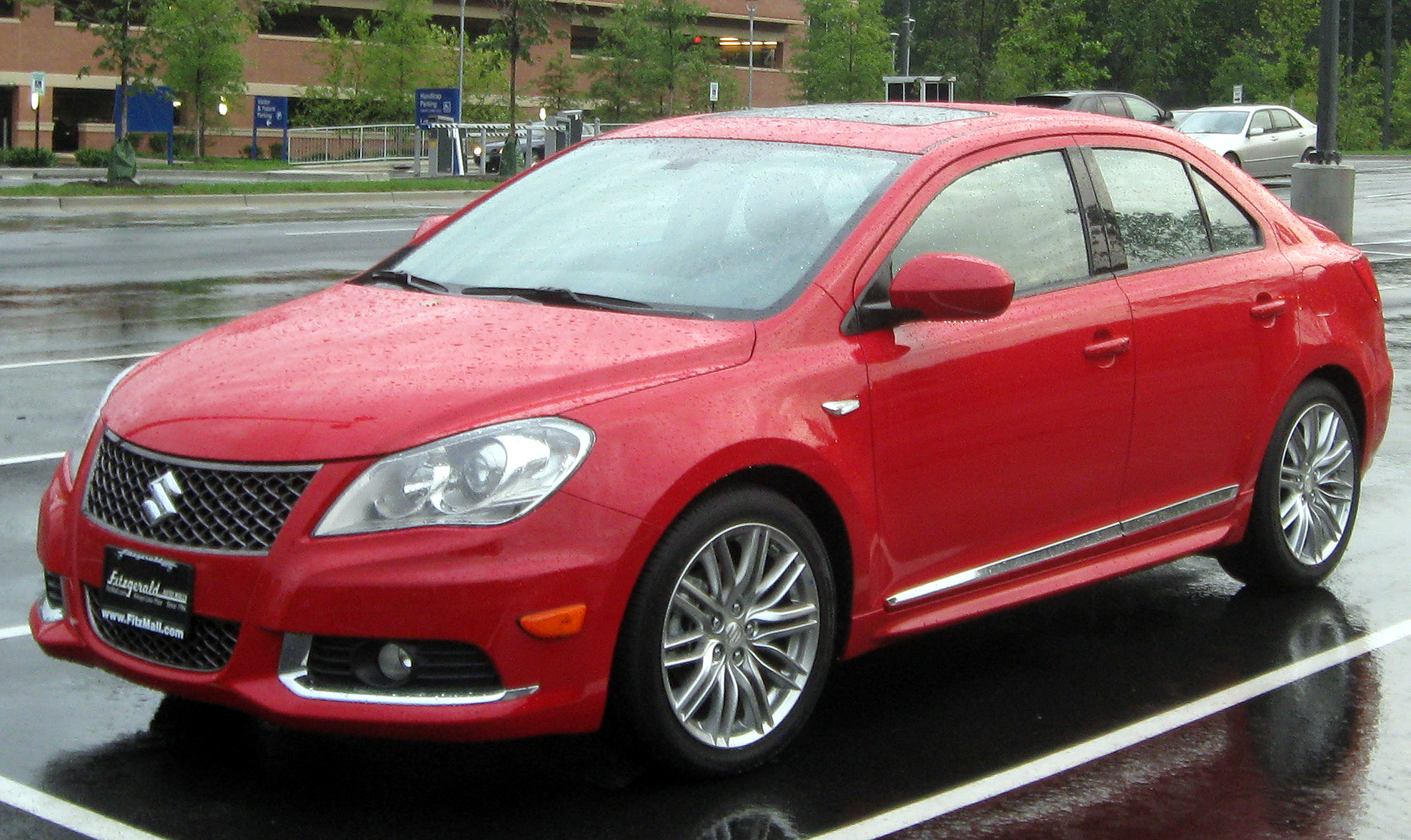 2010-2011 Suzuki Kizashi photographed in Washington, D.C., USA.